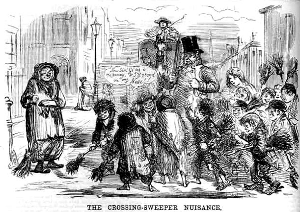 scanned image, released freely without permission for educational purposed per of a "Punch" cartoon on "The Crossing Sweeper Nuisance"